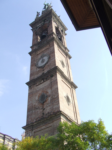 Campanile stezzano